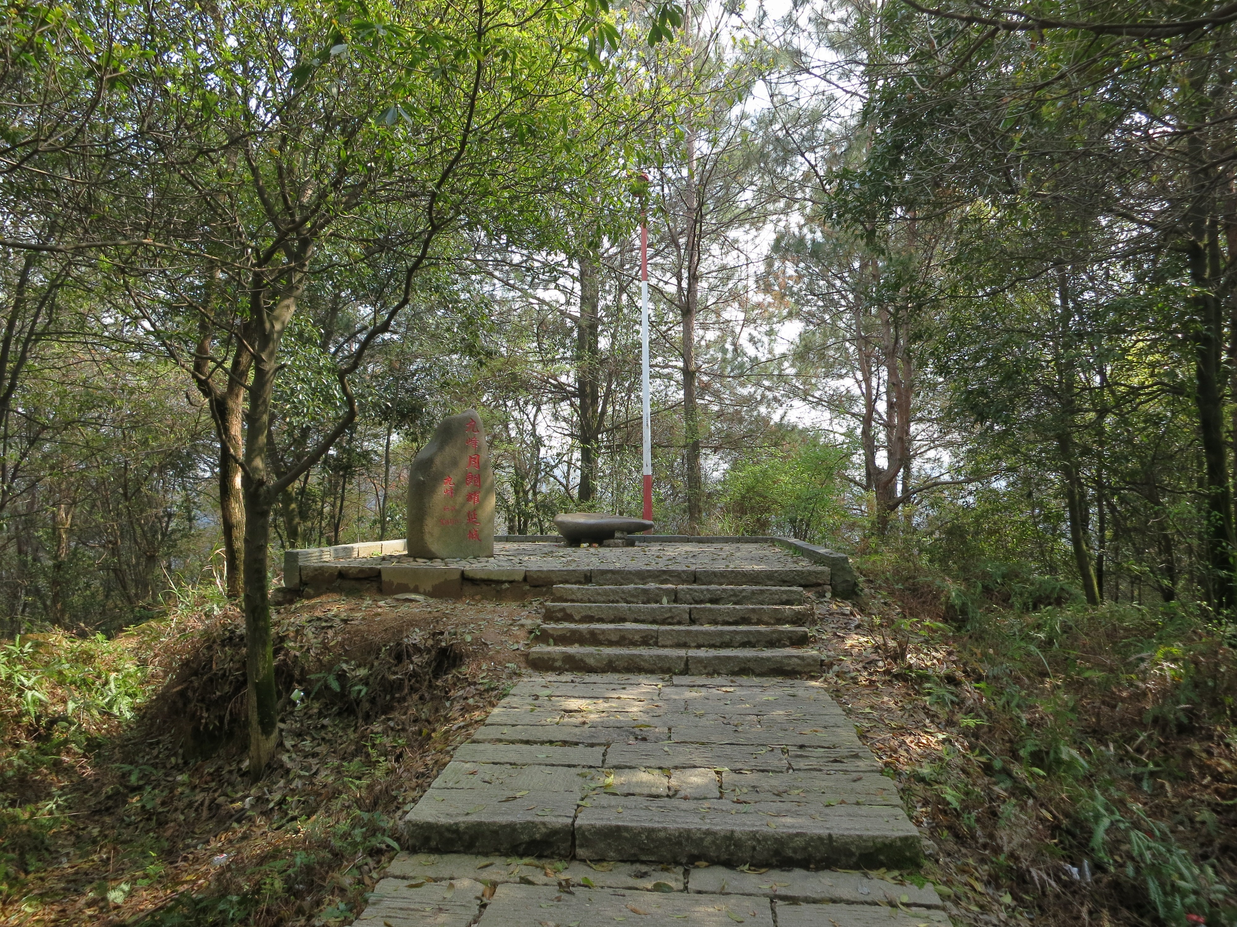 九峰山顶 - Jiufeng Mountain Top - 2016.03